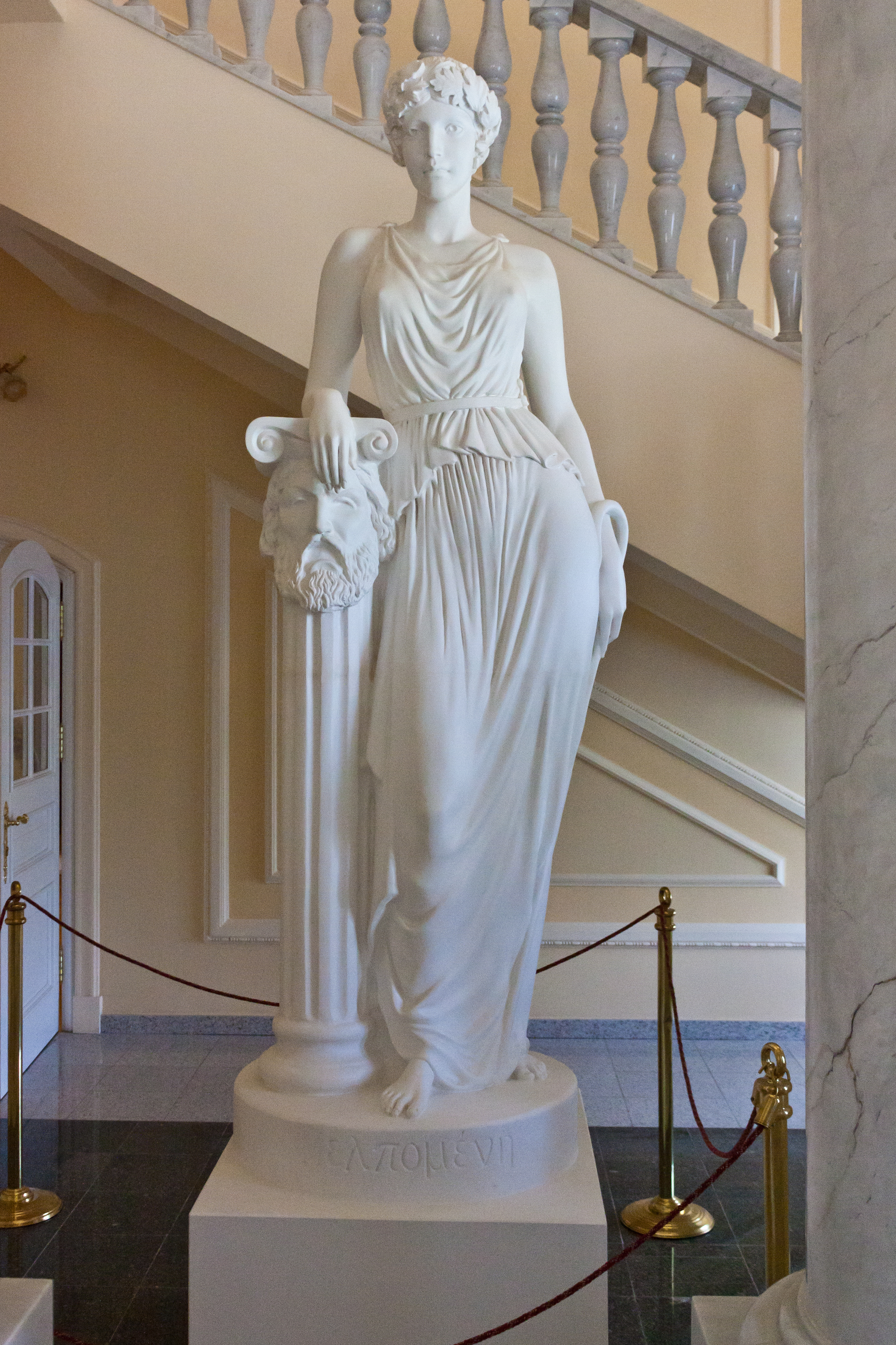 The interiors of Count Kyrylo Rozumovsky's palace in Baturyn